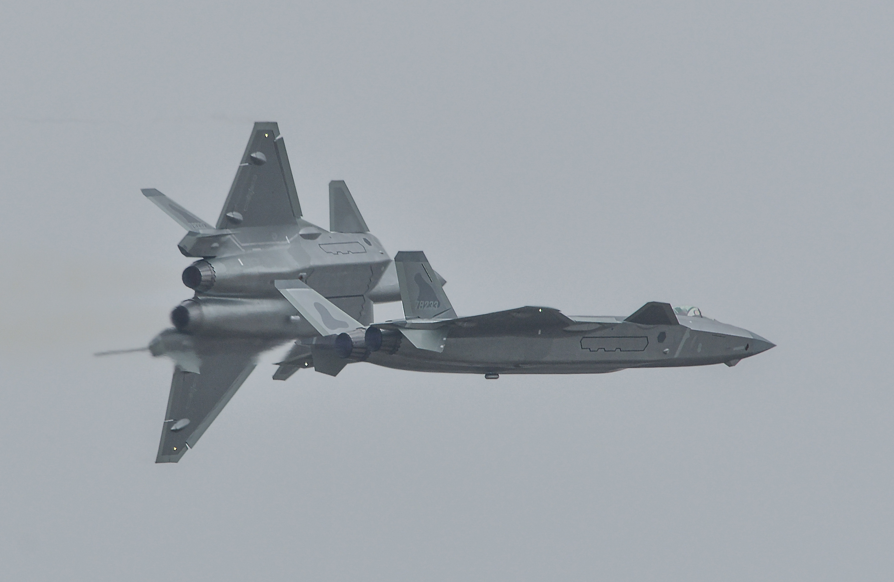 The latest fighter of Chinese Airforce.